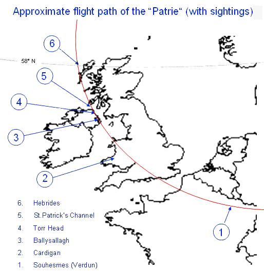 Approximate flightpath of the French airship "Patrie" after she was torn from her temporary moorings in Souhesmes, Franch, on Saturday, 30 Nov. 1907